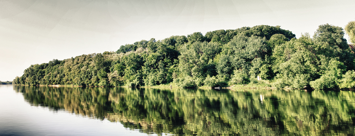 Nova-day view of Lojeva Hara Беларуская (тарашкевіца): Сучасны выгляд Лоевай Гары, позірк з Дняпра.